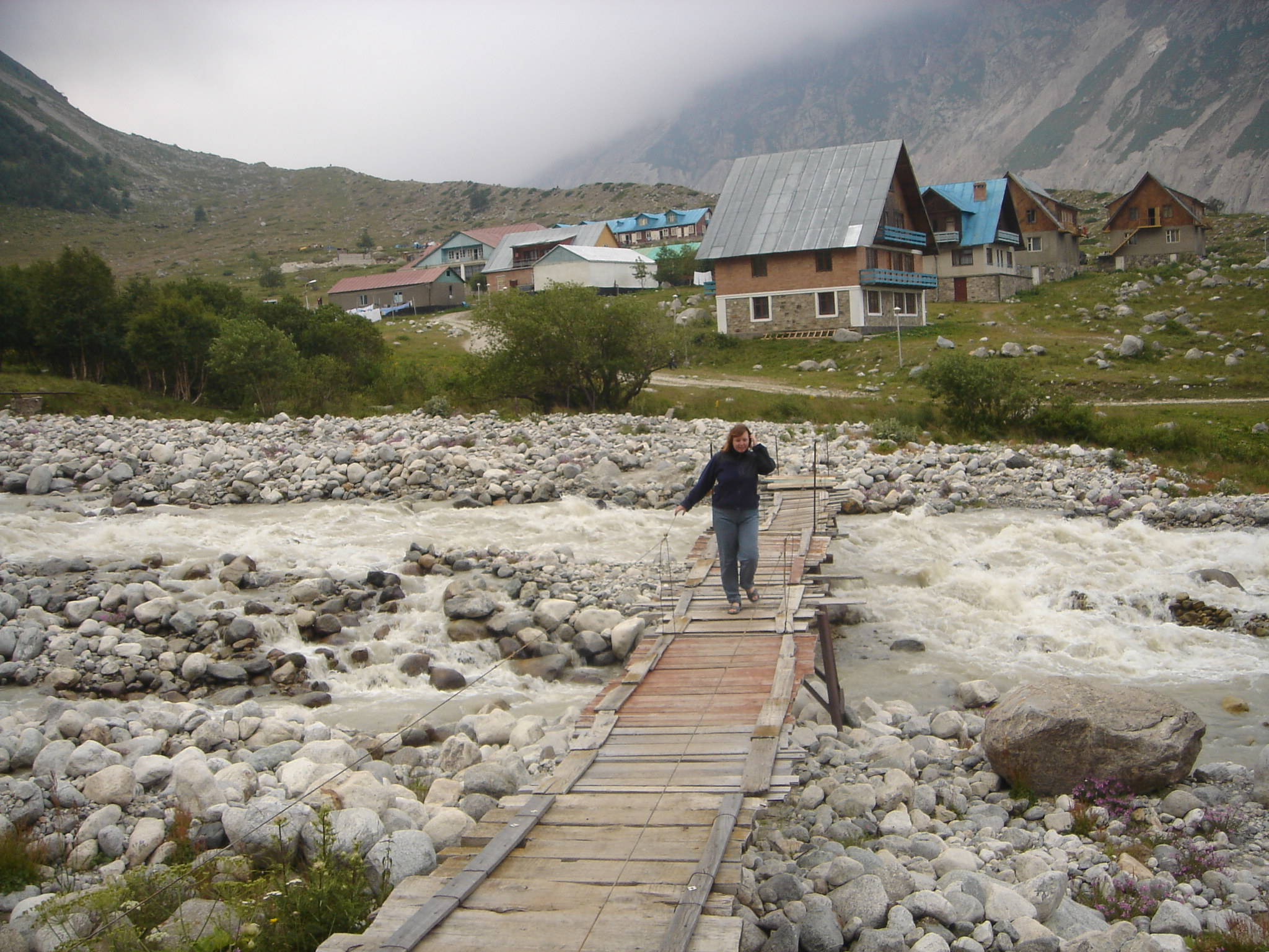 The Bezengi camp.